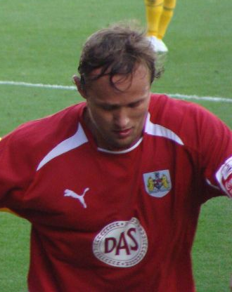 Lee Trundle